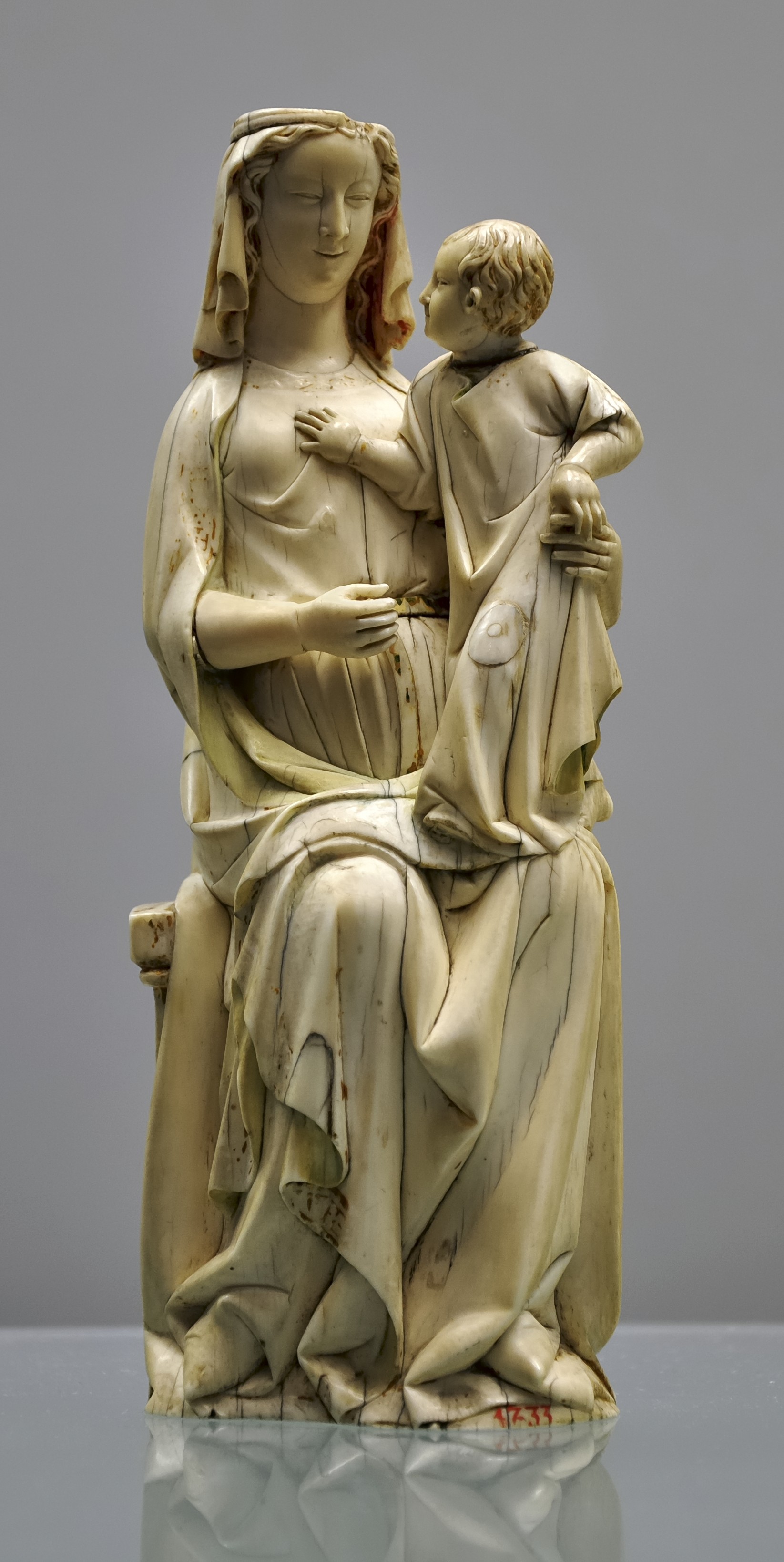 Madonna and Child, ivory with traces of gilding and polychromy, beginning of the 14th century, France (Paris ?). MRAH, Jubilee Park, Brussels.